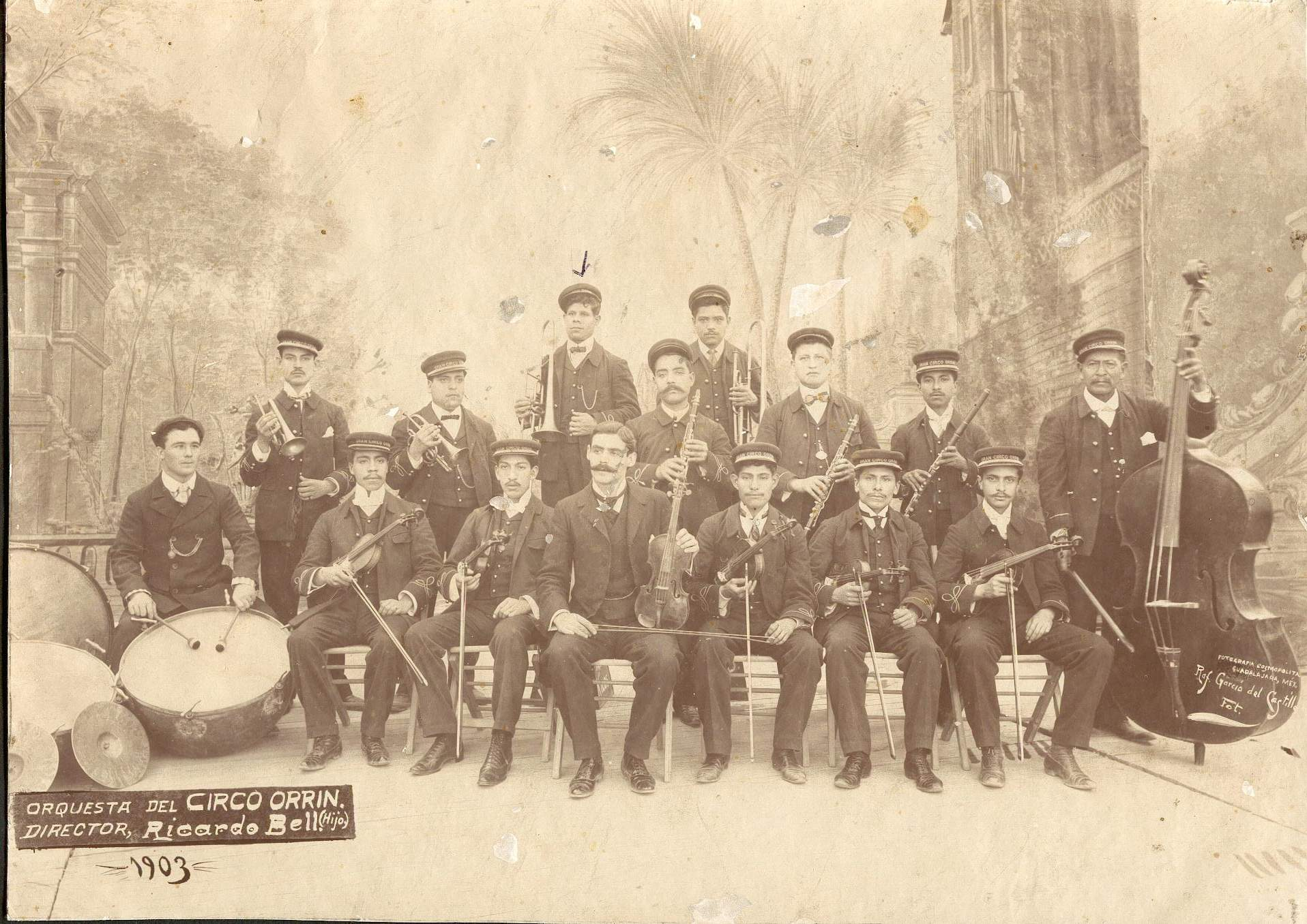 Circus Orchestra Orrin ,Ricardo Bell Jr